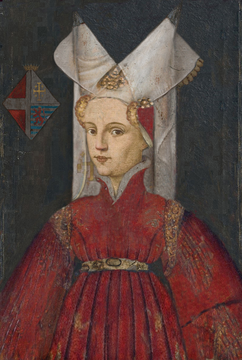 Retrospective portrait of Anne of Lusignan (or Cyprus) (1418-1462), Duchess of Savoy